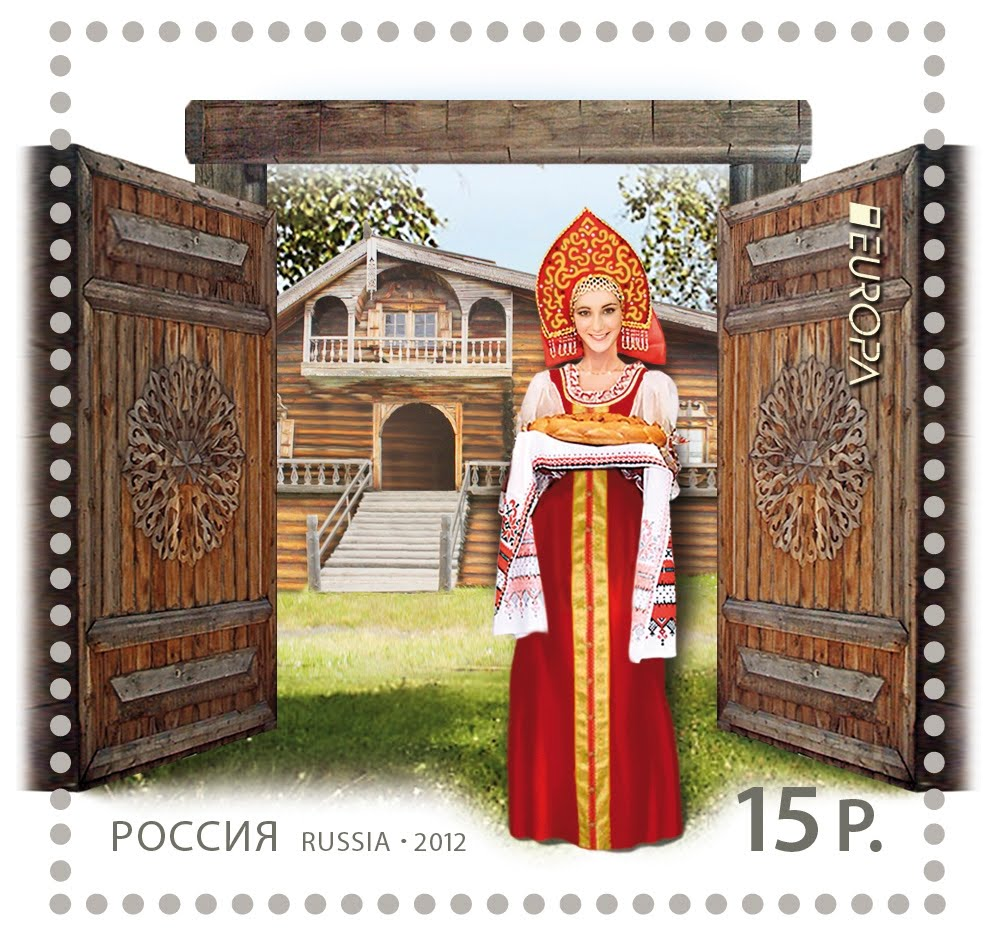 Visit Russia. The Europa stamp issue.A wide open fretted gate, a young woman in a sarafan and a kokoshnik welcoming guests with bread and salt, a wooden house in the background.The issue Visit Russia was named the winner of the 2012 PostEurop EUROPA Jury Prize Competition[1].The stamp of Russia, 15.00 Rubles, 4 May 2012, PTC Marka Catalogue No 1584, Michel No 1816. Coated paper. Offset printing. Perforation: comb 11½:11. Size of the stamp: 37×37 mm. Print run: 360,000.